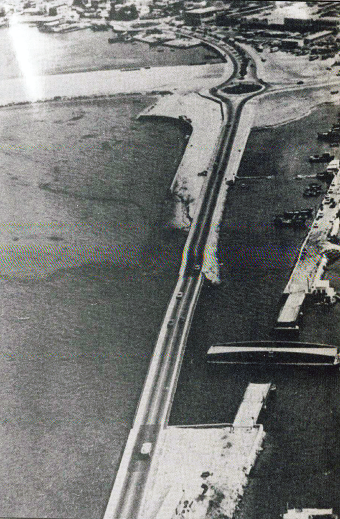 The first (right) and second bridges connecting Manama to Muharraq in Bahrain, called the Hamad Bin Isa Causeway.